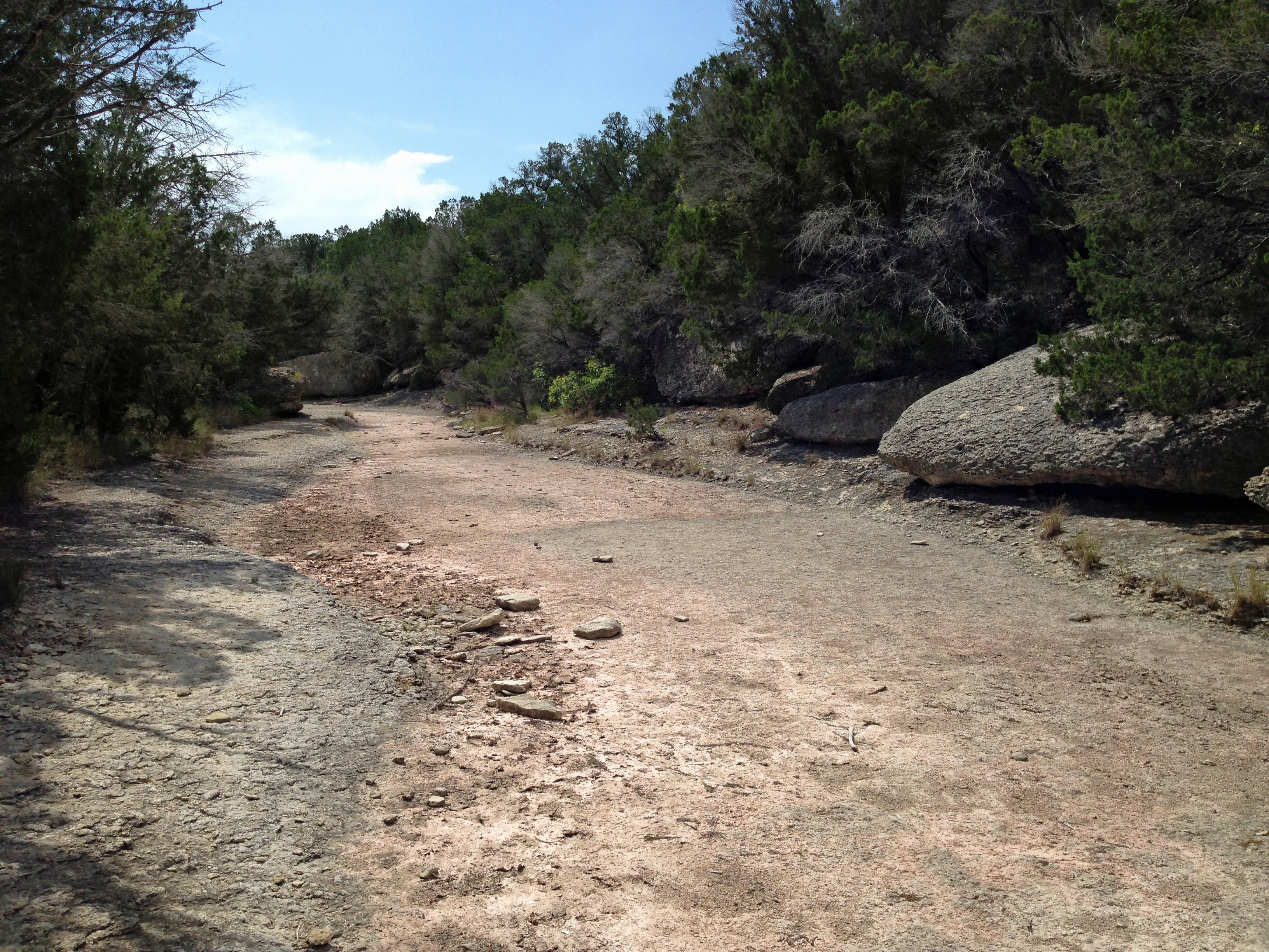 The Denio Creek wash in Dinosaur Valley State Park, Texas.